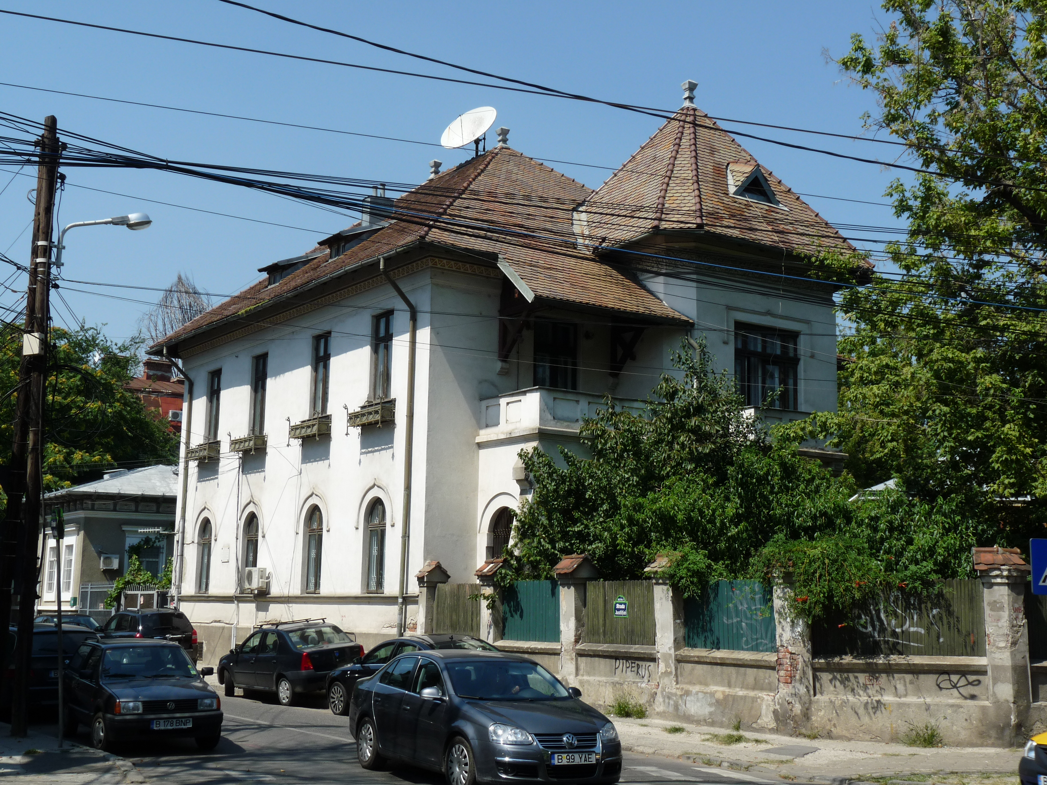 Historic building in Bucharest, Romania, on Justiţiei street 36Română: Clădire istorică din Bucureşti, România, pe str. Justiţiei 36